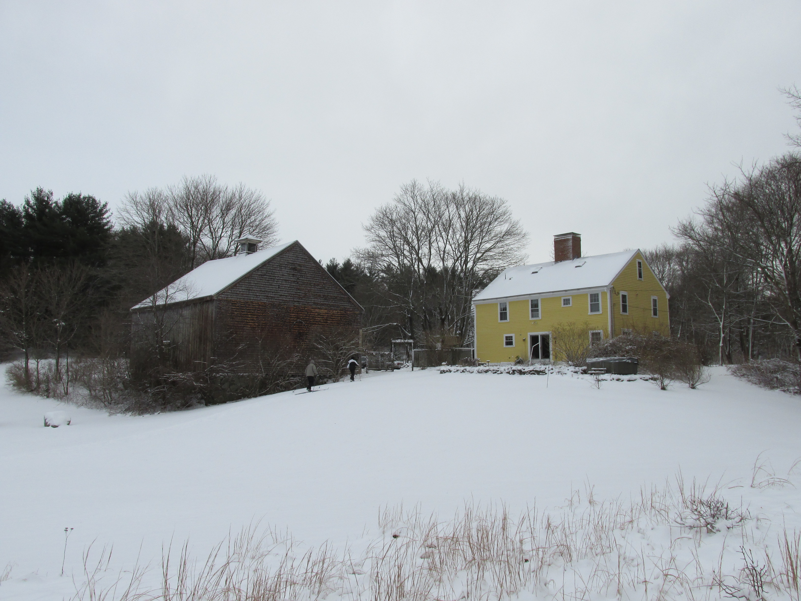 Ipswich Road at Rye Brook Lane, Boxford Massachusetts - 2012